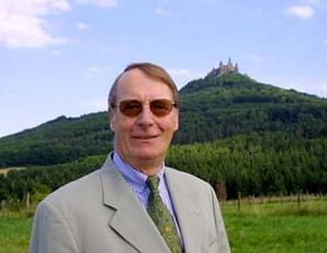 Michael von Preussen is a member of the House of Hohenzollern.